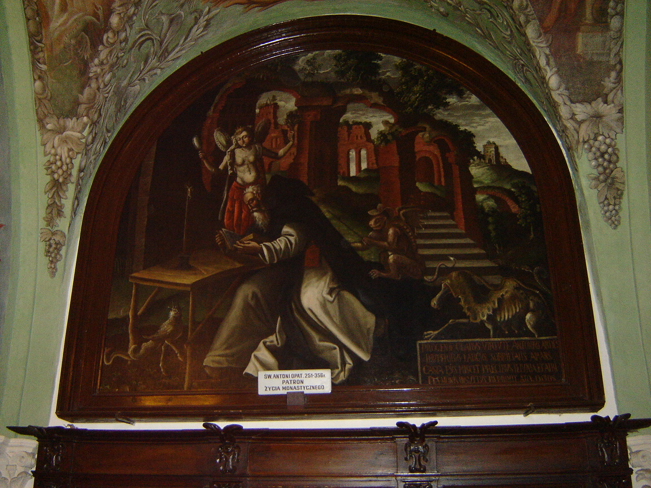 Sacristy of the Jasna Góra Basilica